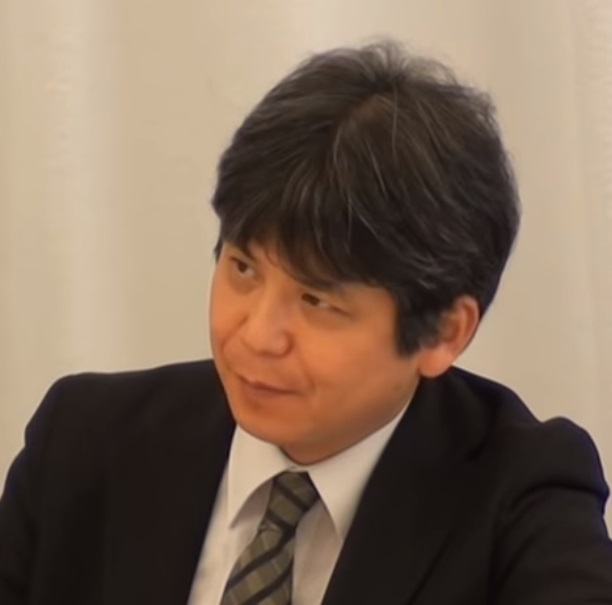 Portrait of Japanese classical music composer Toshio Hosokawa. Produced by music portal Vioworld: Vioworld Blog